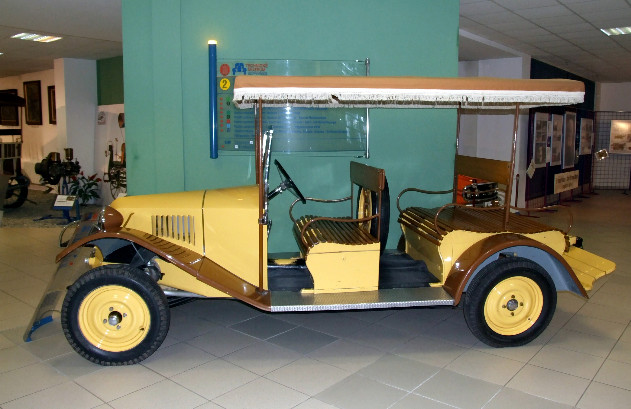 Tatra 12 - firefighting car in Technical Museum Tatra